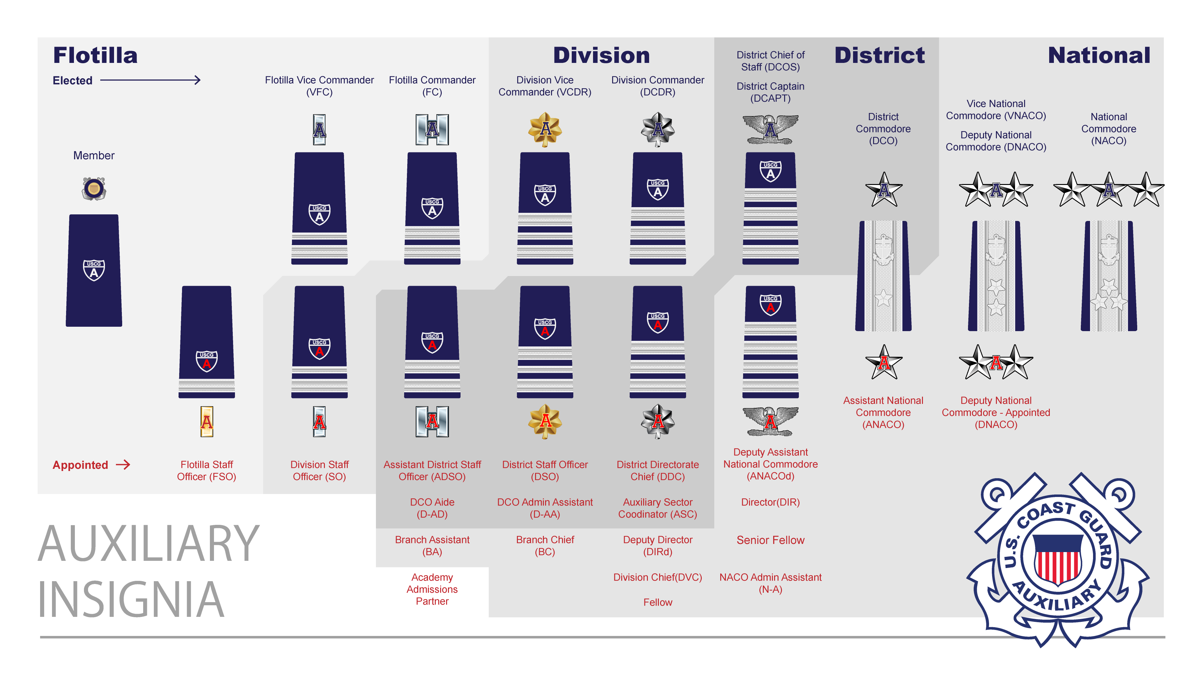 United States Coast Guard Auxiliary Insginia